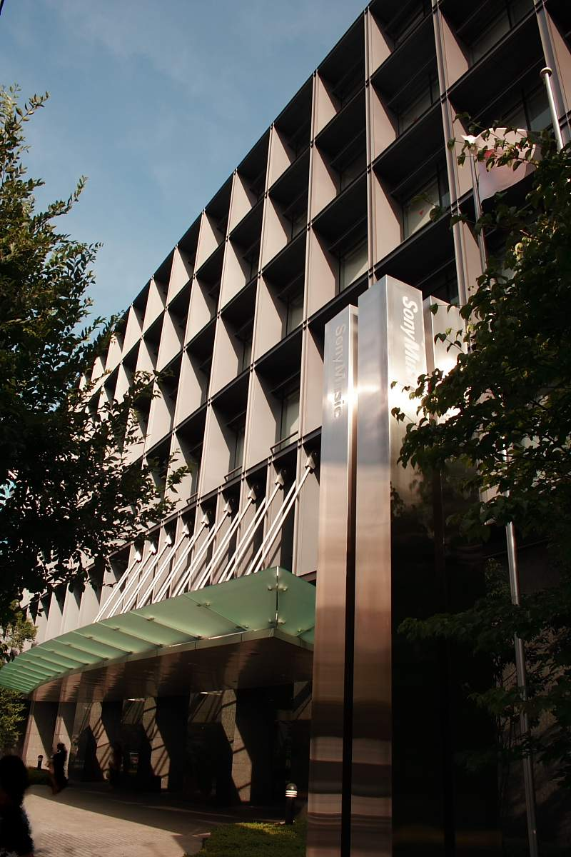 Sony Music Entertainment (Japan) Inc. headquarters